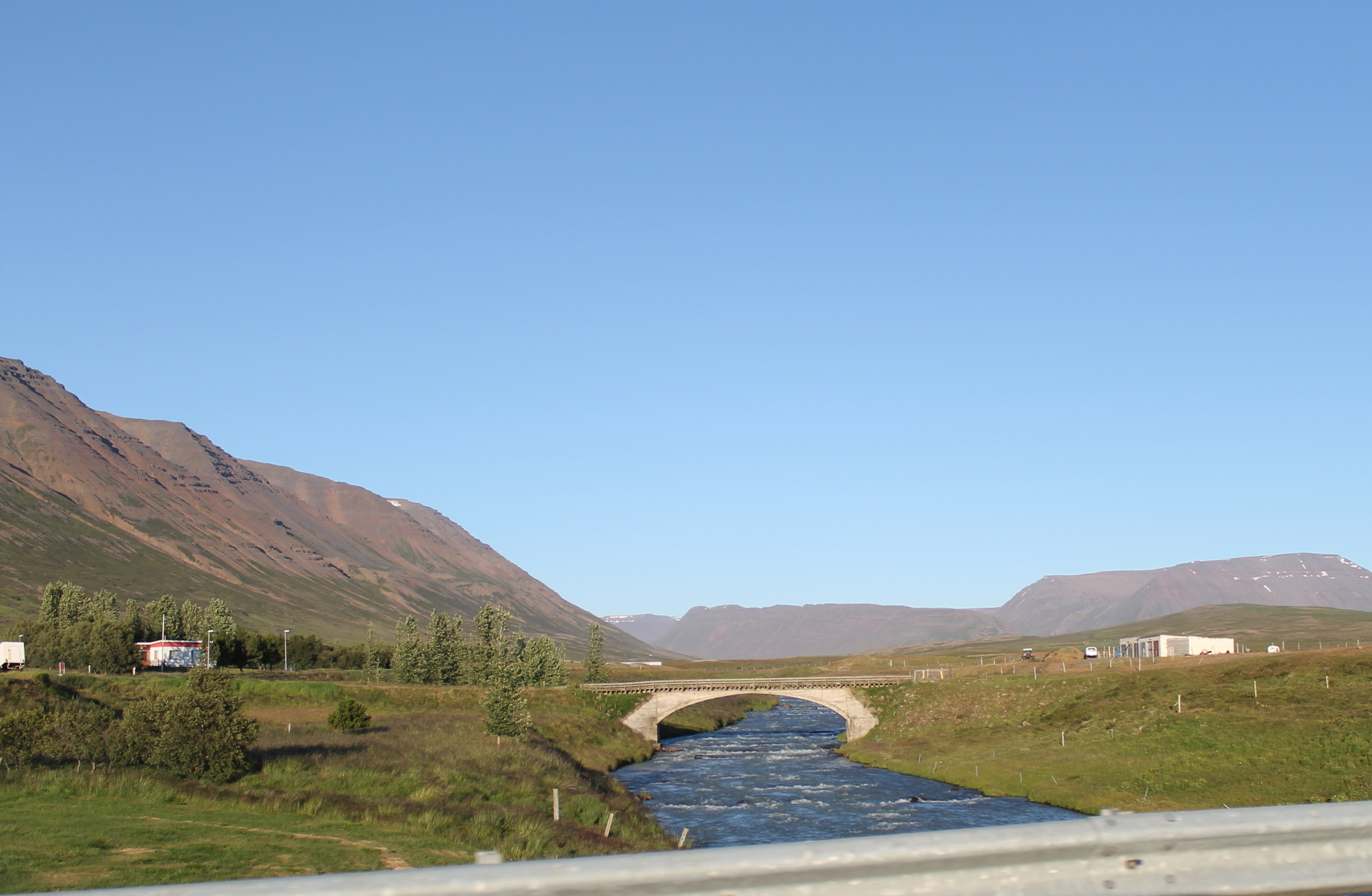 The old Kolbeinsdalsá (Kolka) bridge, Skagafjörður, Northern Iceland.